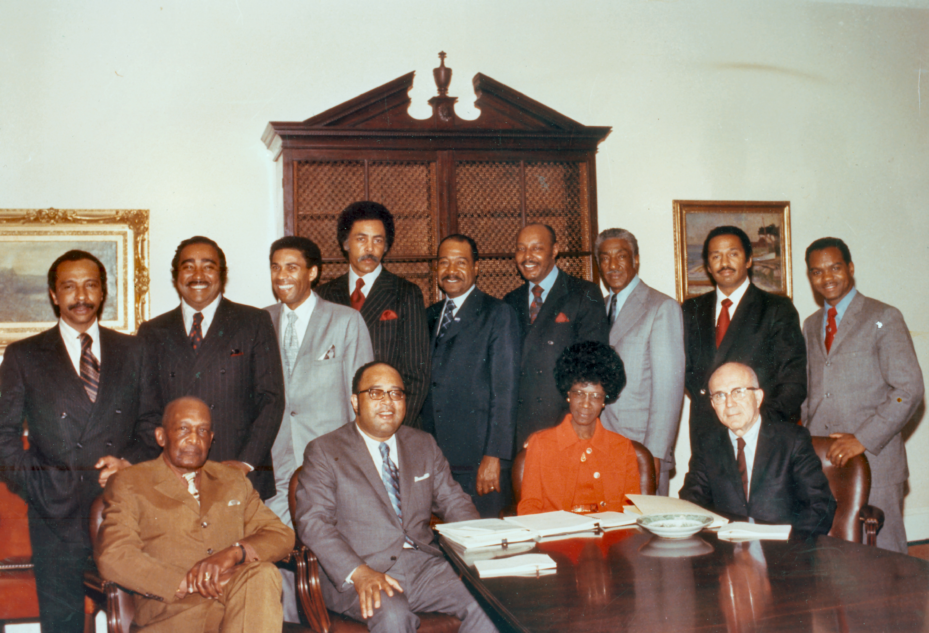 Founding members of the Congressional Black Caucus. Standing L-R: Parren Mitchell, Charles Rangel, Bill Clay, Ron Dellums, George W. Collins, Louis Stokes, Ralph Metcalfe, John Conyers, and Walter Fauntroy. Seated L-R: Robert N.C. Nix, Sr., Charles Diggs, Shirley Chisholm, and Augustus F. Hawkins.